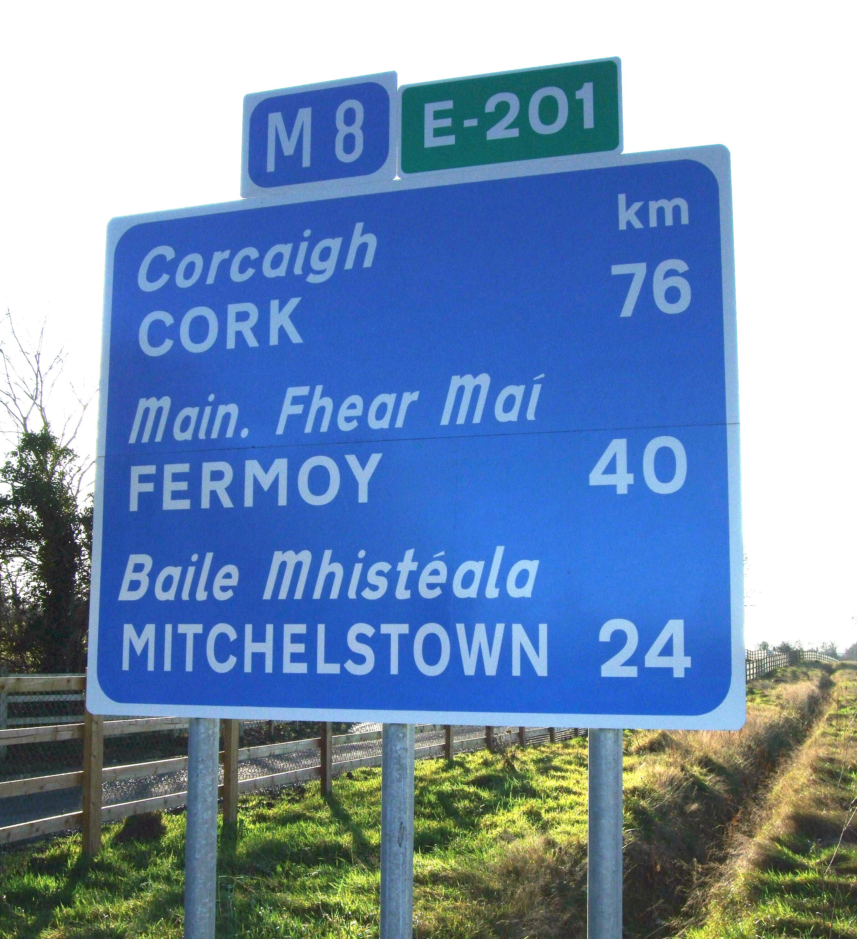 route confirmation signage at junction 10 M8 (Better Exposure)